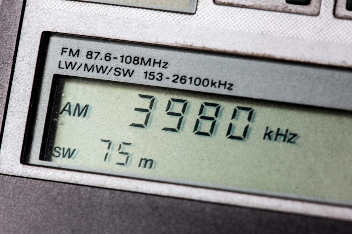 Digital dial of a handheld radio receiver with Shortwave reception.